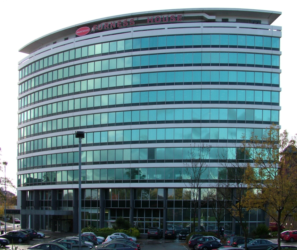 Furness House, close to Salford Dock 9, headquarters of Manchester Liners from 1970 until its demise.